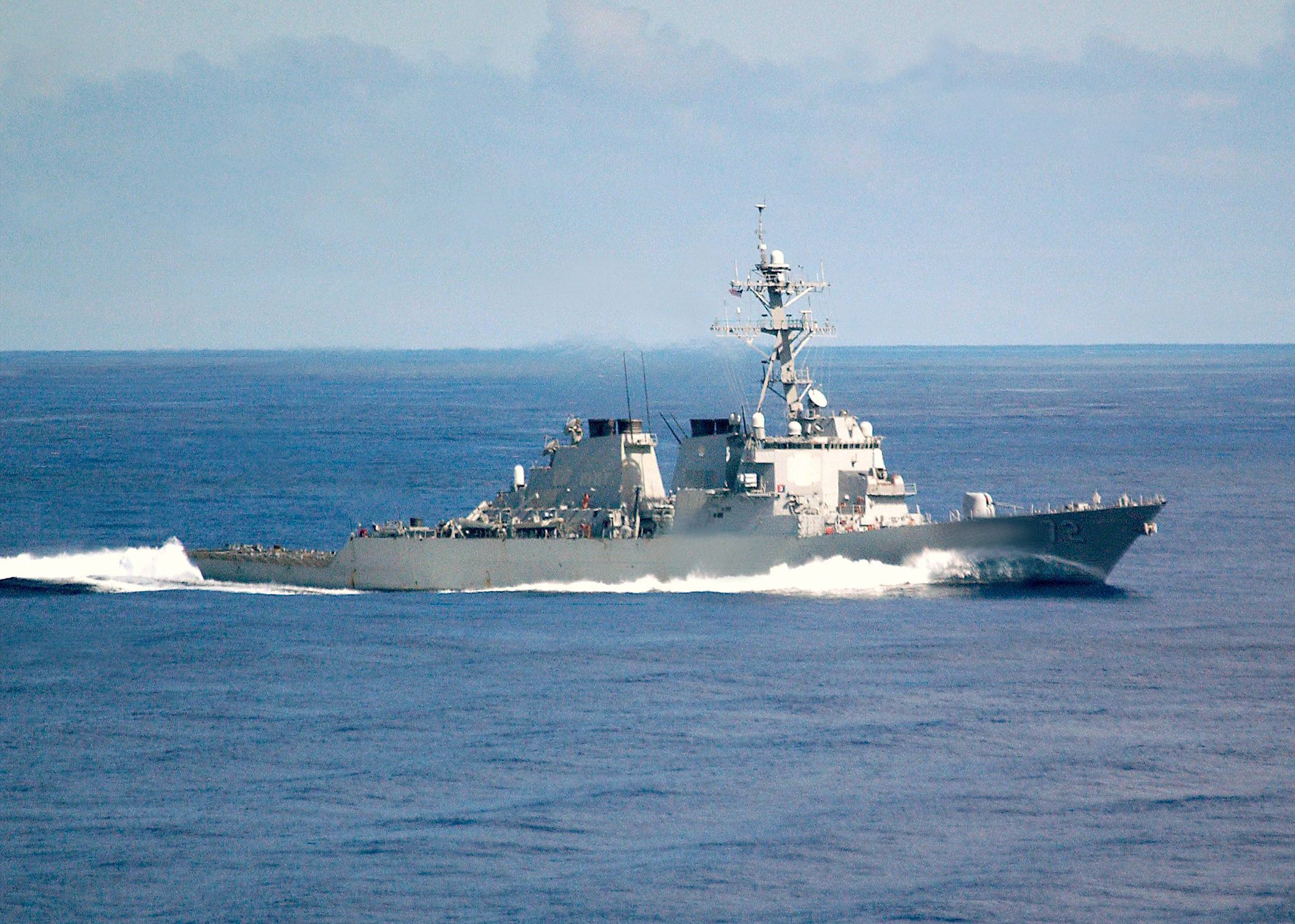 At sea with USS Mahan, Sept. 27, 2002 — USS Mahan (DDG 72) steams in company with USS George Washington (CVN 73) in the Atlantic Ocean during Exercise Mediterranean Shark. Destroyers, such as Mahan, operate in support of carrier battle groups, surface action groups, amphibious groups and replenishment groups. They primarily perform anti-submarine warfare duty while guided missile destroyers are multi-mission (ASW, anti-air and anti-surface warfare) surface combatants. U.S. Navy photo by Photographer's Mate Airman Rex Nelson. [020927-N-6433N-003] Sept. 27, 2002